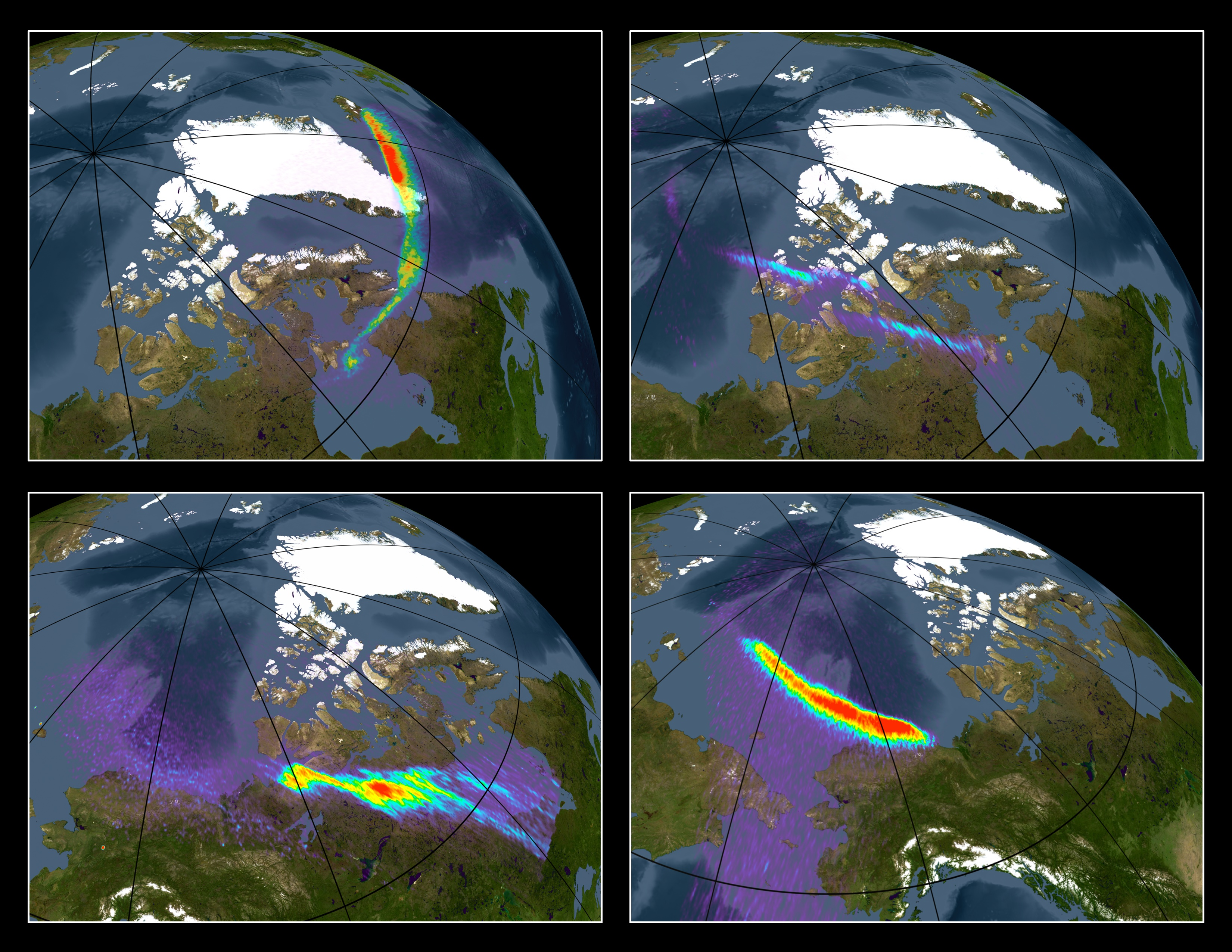 A team of scientists observed Earth’s north polar region ten times during a four-month period in 2004. As the bright arcs in this sample of images show, they discovered low-energy (0.1 - 10 kilo electron volts) X-rays generated during auroral activity. Other satellite observatories had previously detected high-energy X-rays from Earth’s auroras. The images – seen here superimposed on a simulated image of the Earth – are from approximately 20-minute scans during which Chandra was pointed at a fixed point in the sky while the Earth’s motion carried the auroral region through the field of view. The color code of the X-ray arcs represents the brightness of the X-rays, with maximum brightness shown in red. Auroras are produced by solar storms that eject clouds of energetic charged particles. These particles are deflected when they encounter the Earth’s magnetic field, but in the process large electric voltages are created. Electrons trapped in the Earth’s magnetic field are accelerated by these voltages and spiral along the magnetic field into the polar regions. There they collide with atoms high in the atmosphere and emit X-rays (see the accompanying illustration).